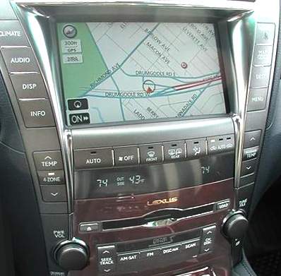 The fifth generation Lexus navigation system used on the Lexus LS 460 L, with 9-inch 800x600 high-resolution touchscreen. Thanks to difiorito at ClubLexus for photo.